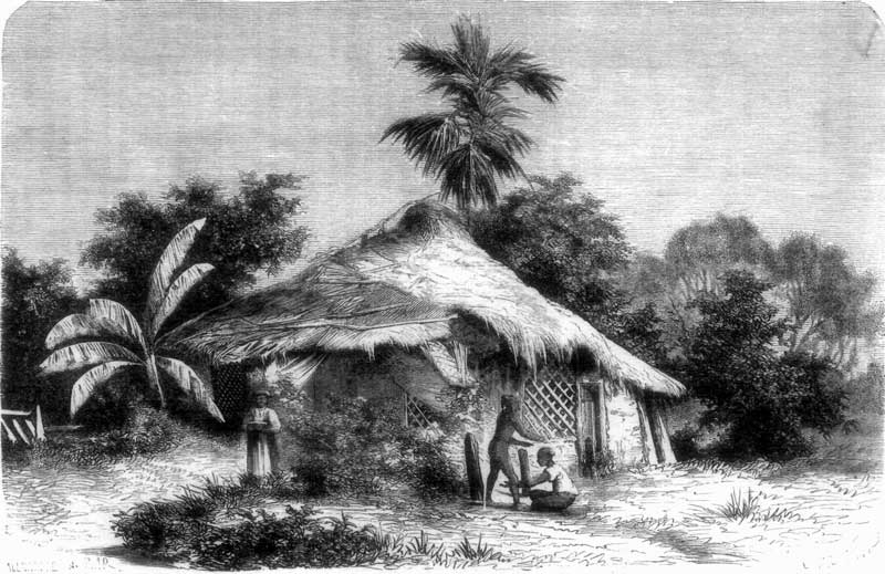 A sketch of a dwelling in Mazagaon, in Bombay